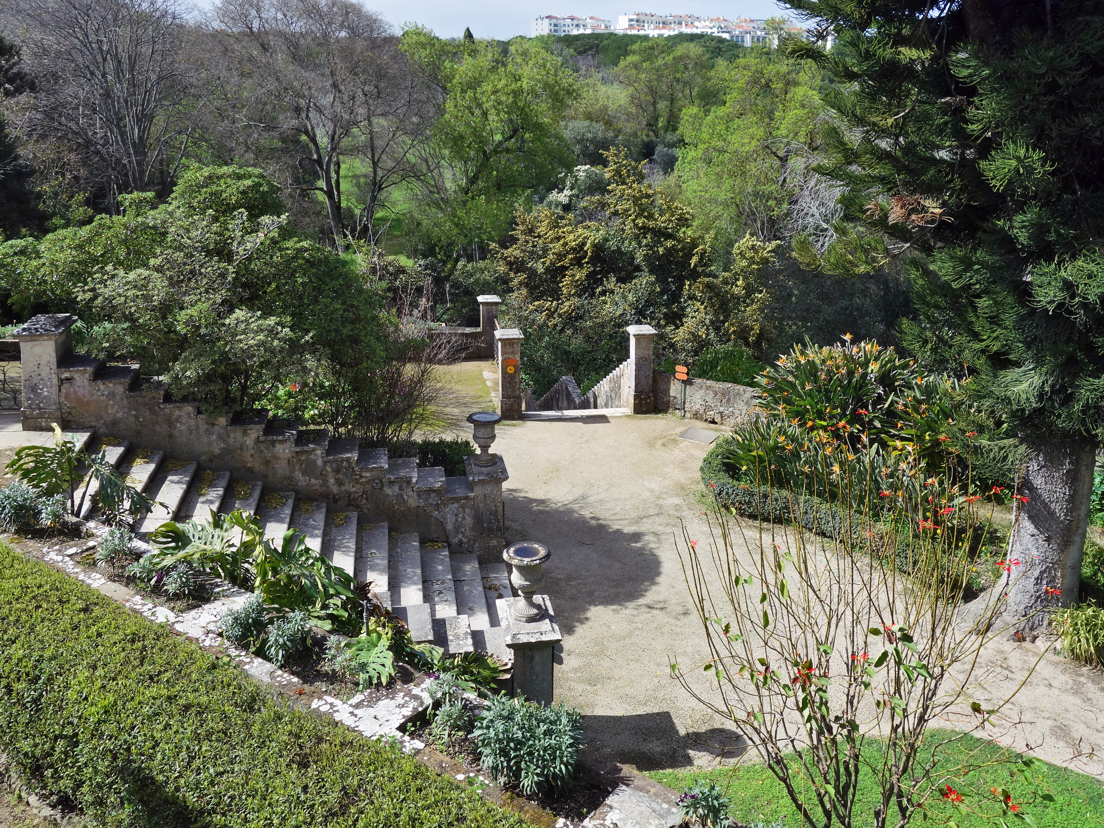 Parque Botânico do Monteiro-Mor, historical garden